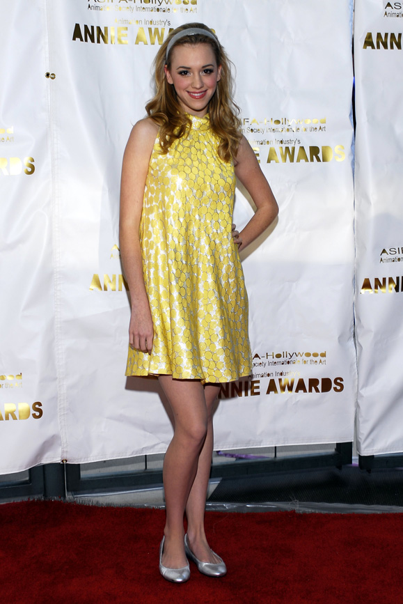 Andrea Bowen at the 2006 Annie Awards red carpet at the Alex Theatre in Glendale, California.